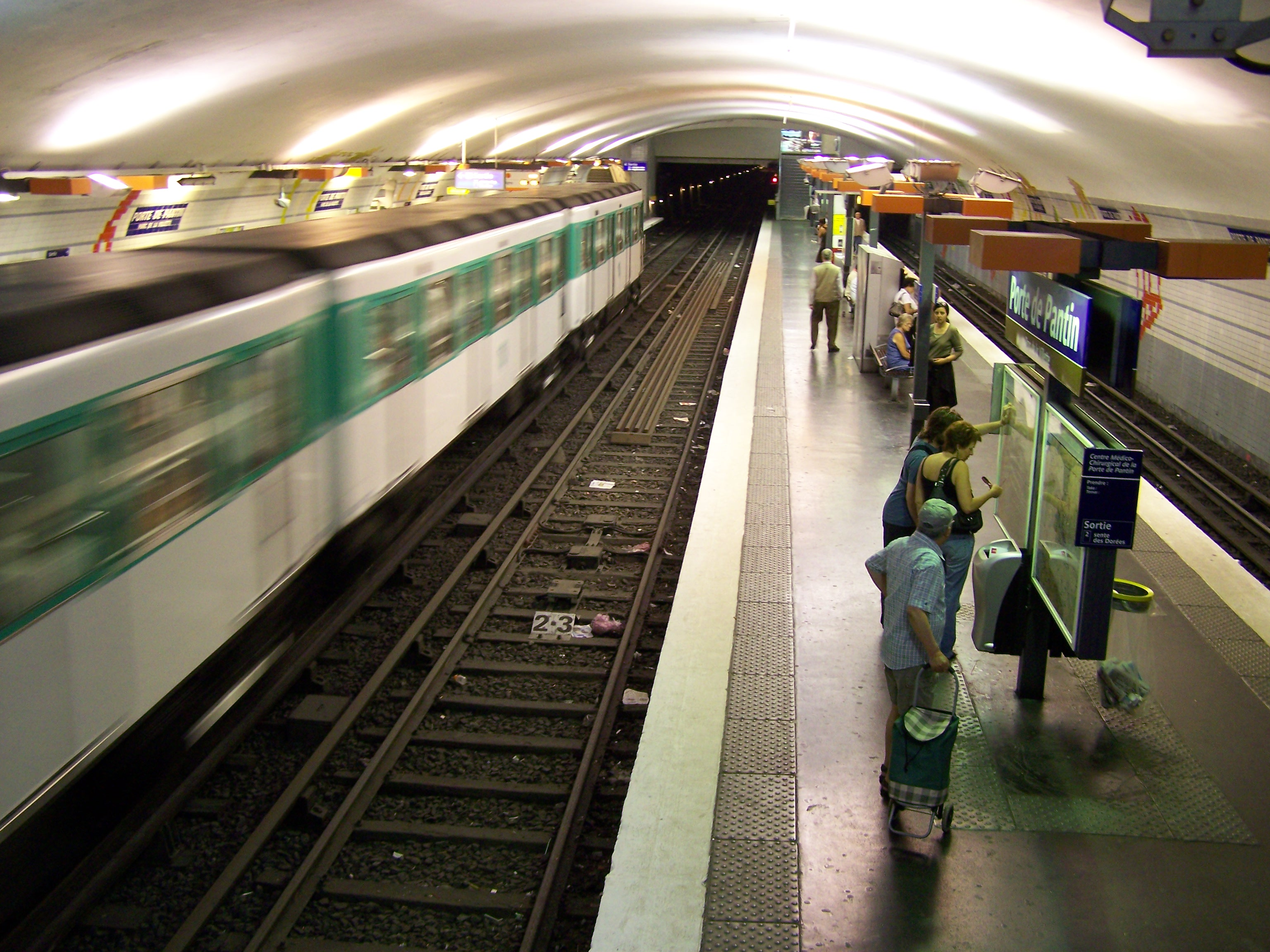 Metro station Porte de Pantin in Paris.